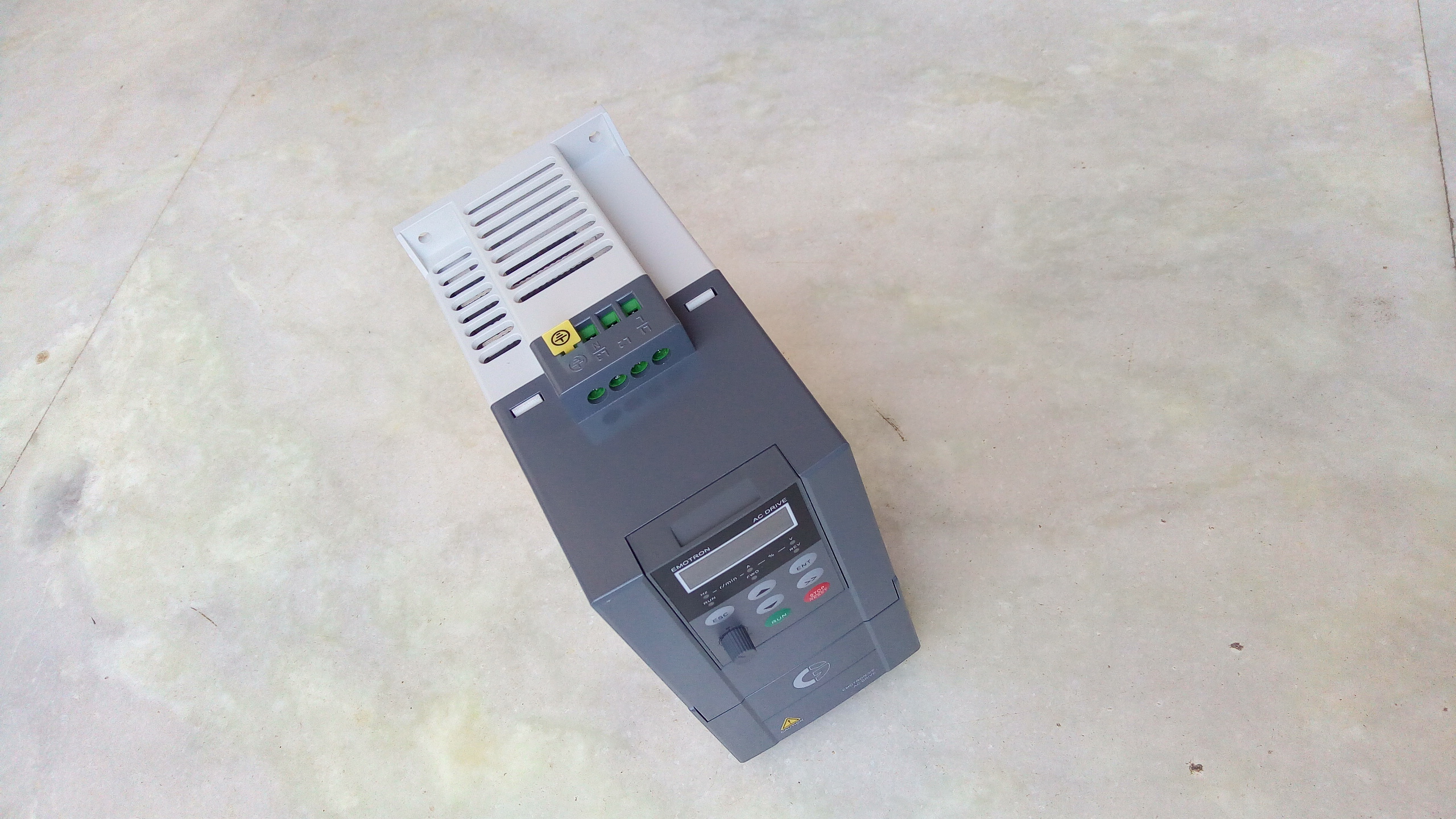 Variable Frequency Drive (VFD)